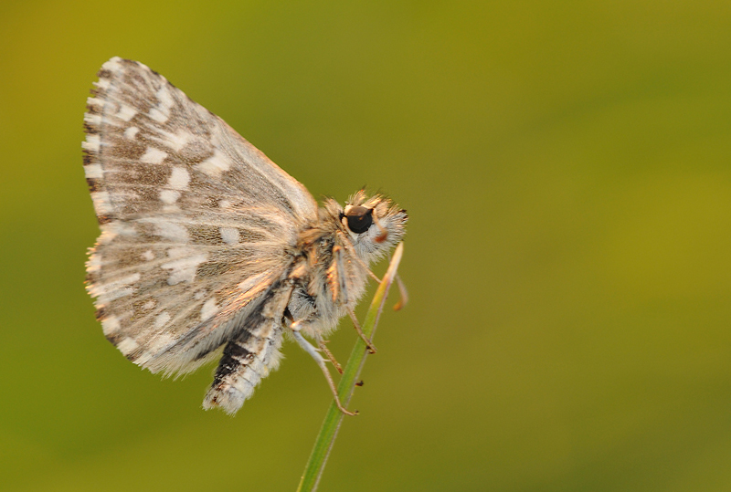 Wing underside view of an Aegean Skipper (Pyrgus melotis) butterfly. Adana, Turkey. 95 m.